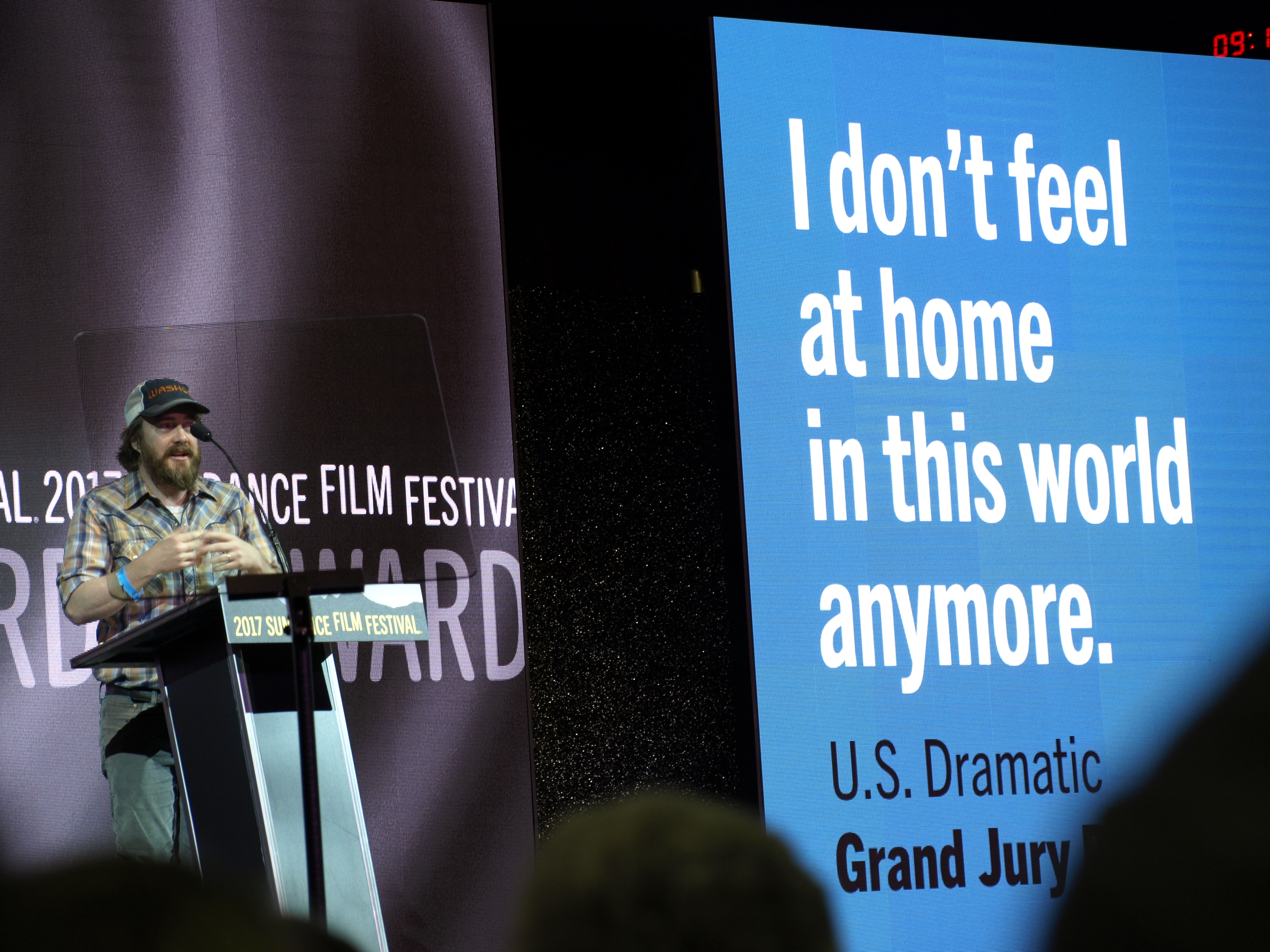 "I Don't Feel at Home in This World Anymore" won the U.S. Dramatic Grand Jury award at Sundance 2017, Park City UT